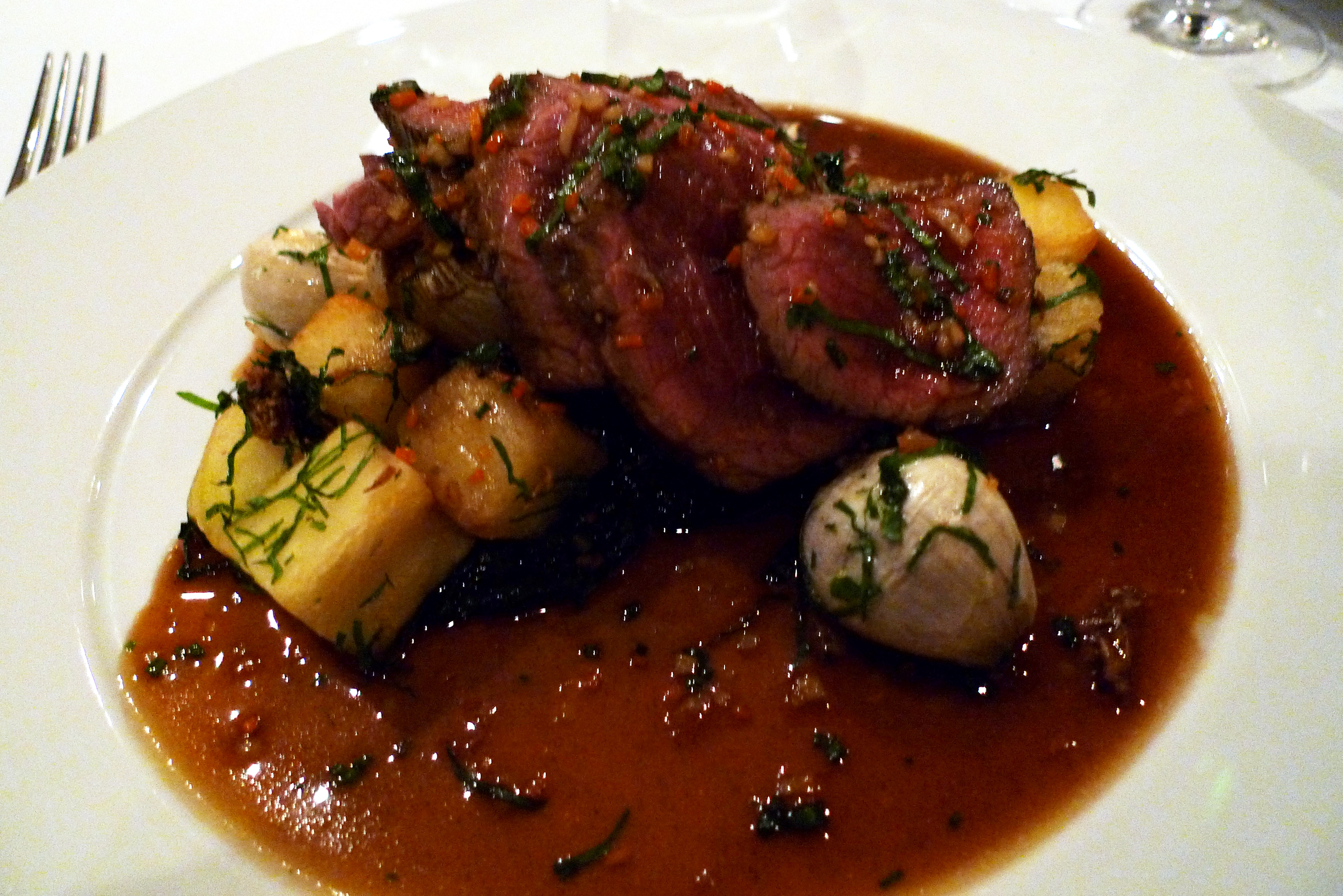 The peppered ostrich fillet with cavolo nero, pomme Béarnaise and wild garlic. The meat was cooked rare, very nice, but it wasn't the most flavoursome meat and rather tough. At Vivat Bacchus, Hays Lane.